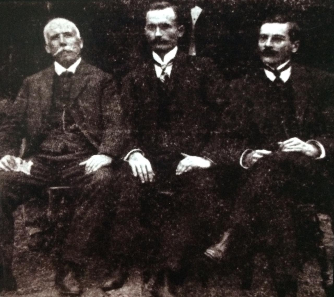 Henrique Faccini, Carlos Jansson and Arthur do Vale Quaresma, the workers who broke out the 1906 general strike in Porto Alegre.